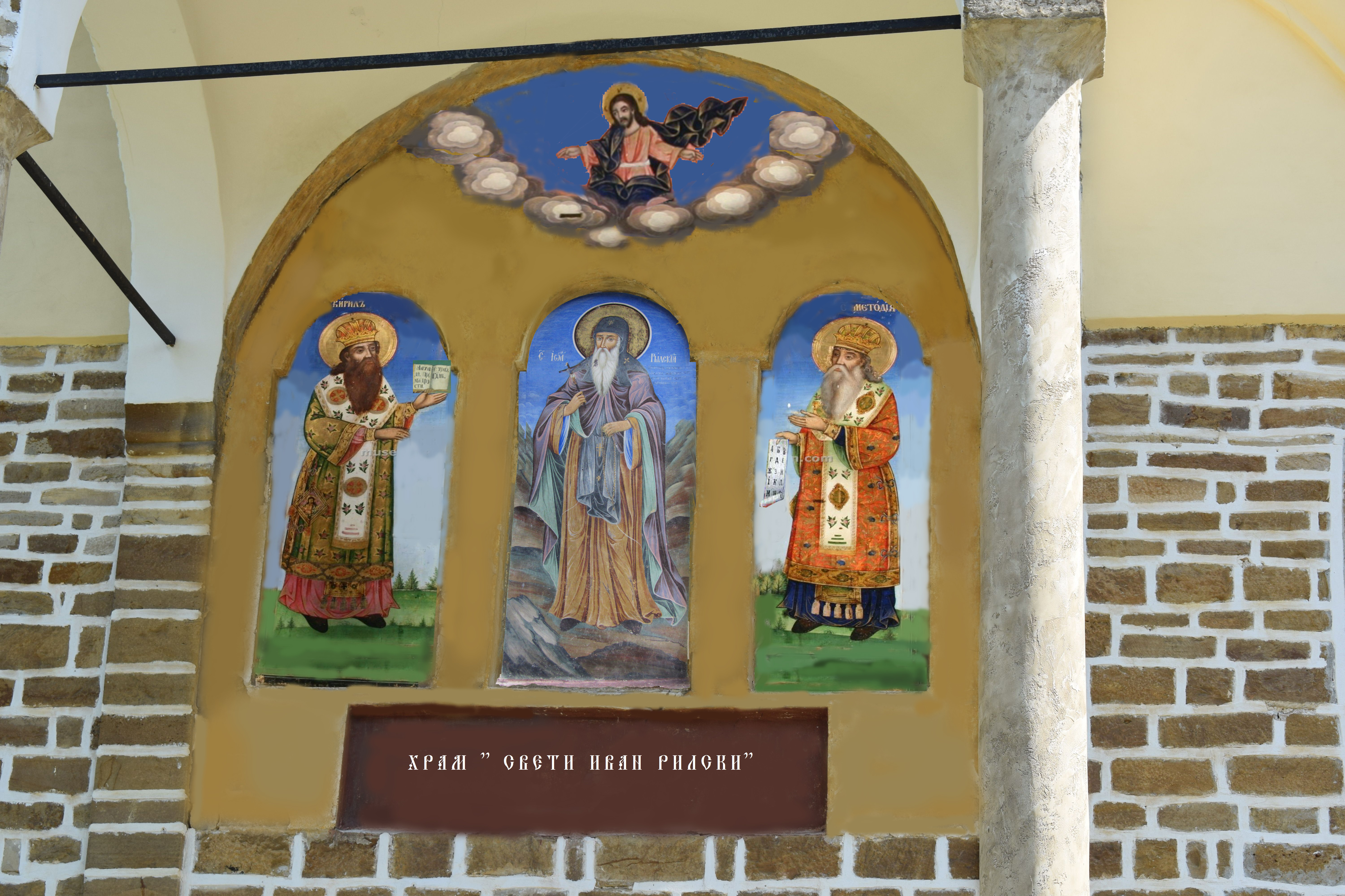 Old,Closed Bulgarian Orthodox Church in the Village Daskot,near Pavlikeni, Oblast Veliko Tarnovo,Bulgaria